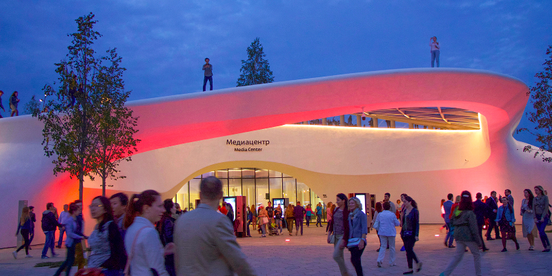 Park Zaryadye in Moscow